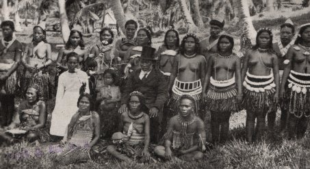 Description: King Auweyida and Queen Eigamoiya in the middle with loyal nauruan subjects (around 1890).